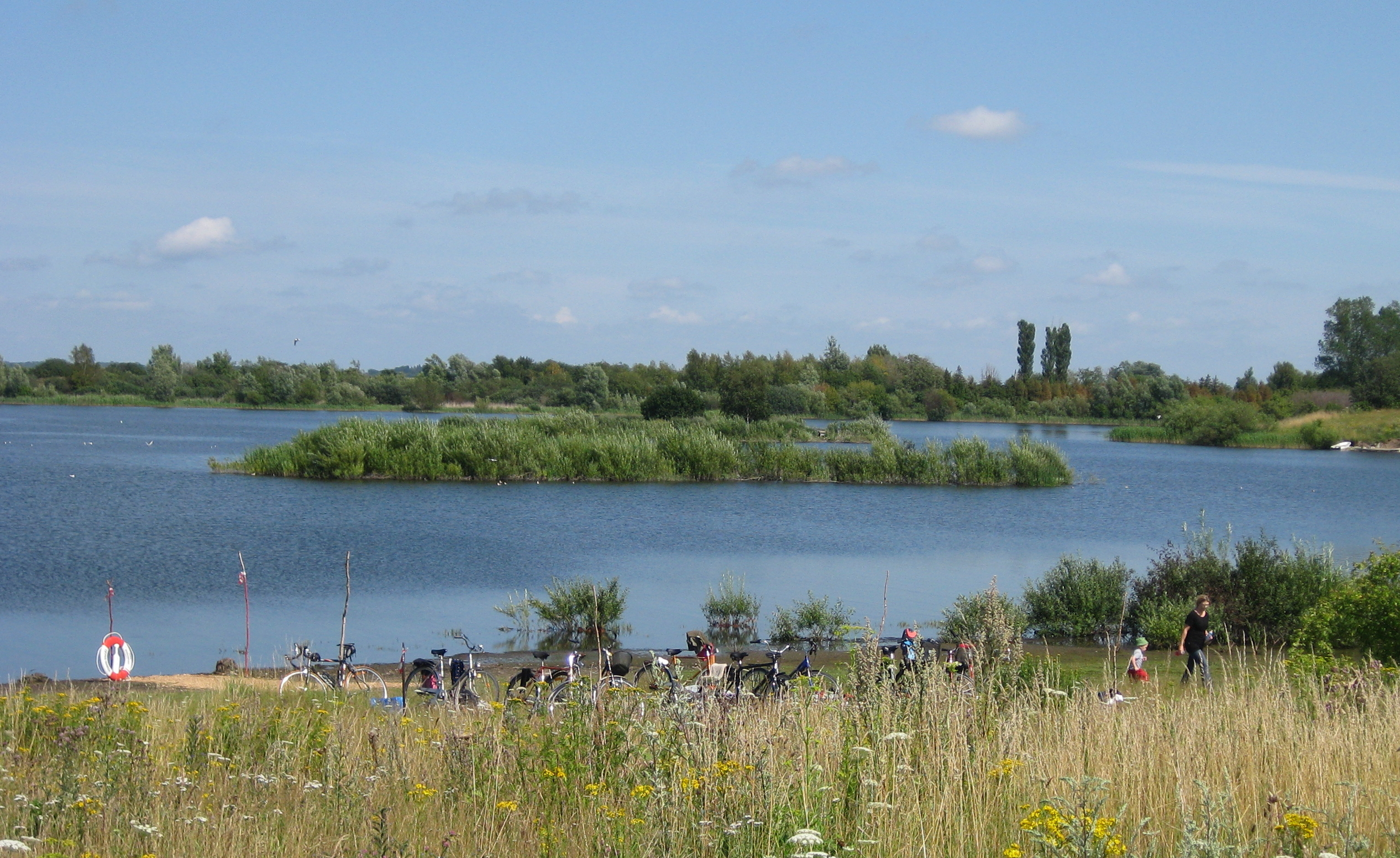 Arrie lake in Vellinge, Scania, Sweden